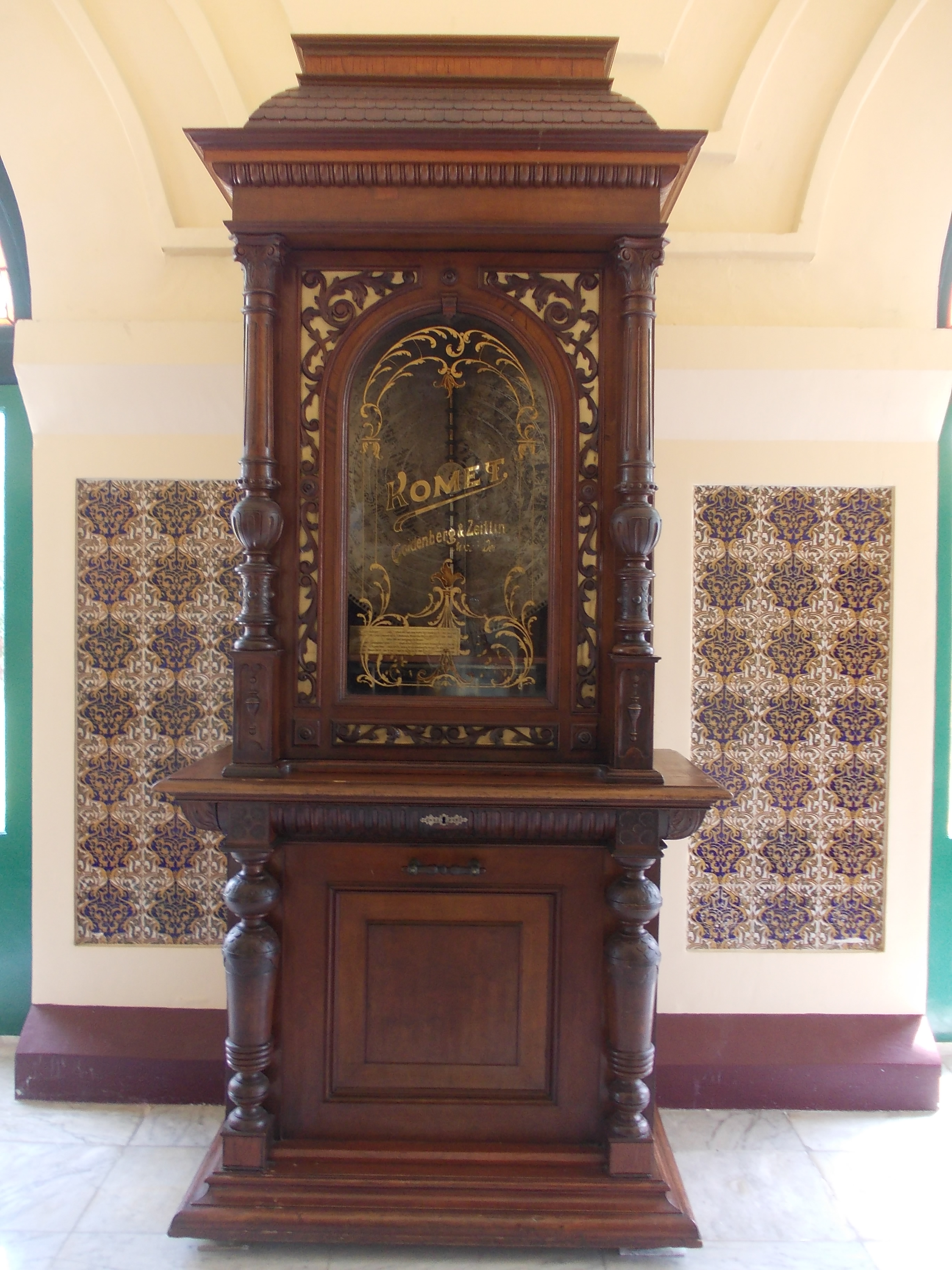 Komet, a large gramophone made in Germany on display in Siak Palace, Siak Sri Inderapura, Siak regency, Riau. It is considered as the only surviving piece in the world after another one in Germany no longer functioned.